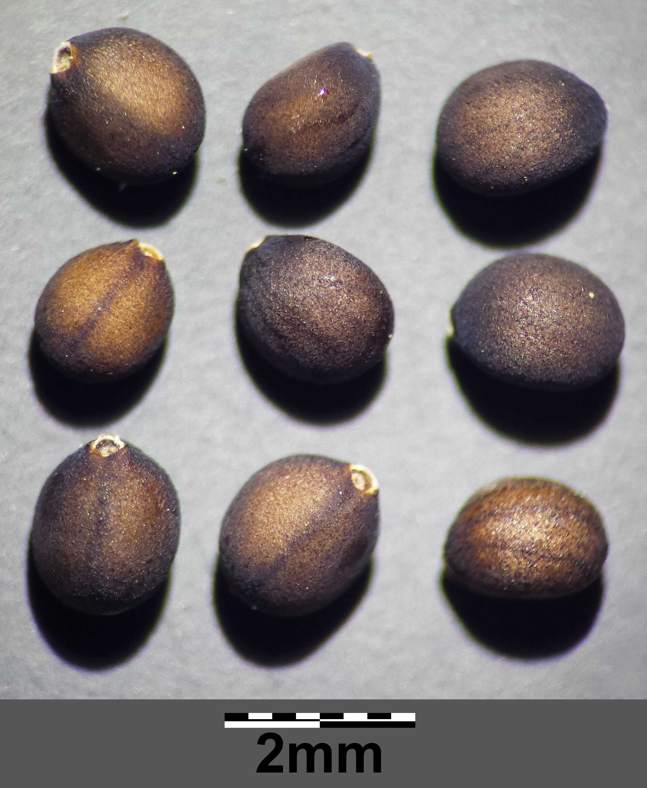 Fruitlets (leg.: 2015-06-13) Taxonym: Salvia pratensis ss Fischer et al. EfÖLS 2008 ISBN 978-3-85474-187-9 Location: near Niederhollabrunn, district Korneuburg, Lower Austria - ca. 350 m a.s.l. Habitat: meadows